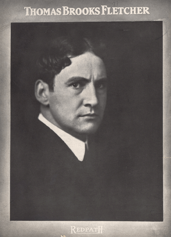 Thomas B. Fletcher, Politican and Chautauqua circuit lecturer from Ohio. original was .gif format, converted to .png